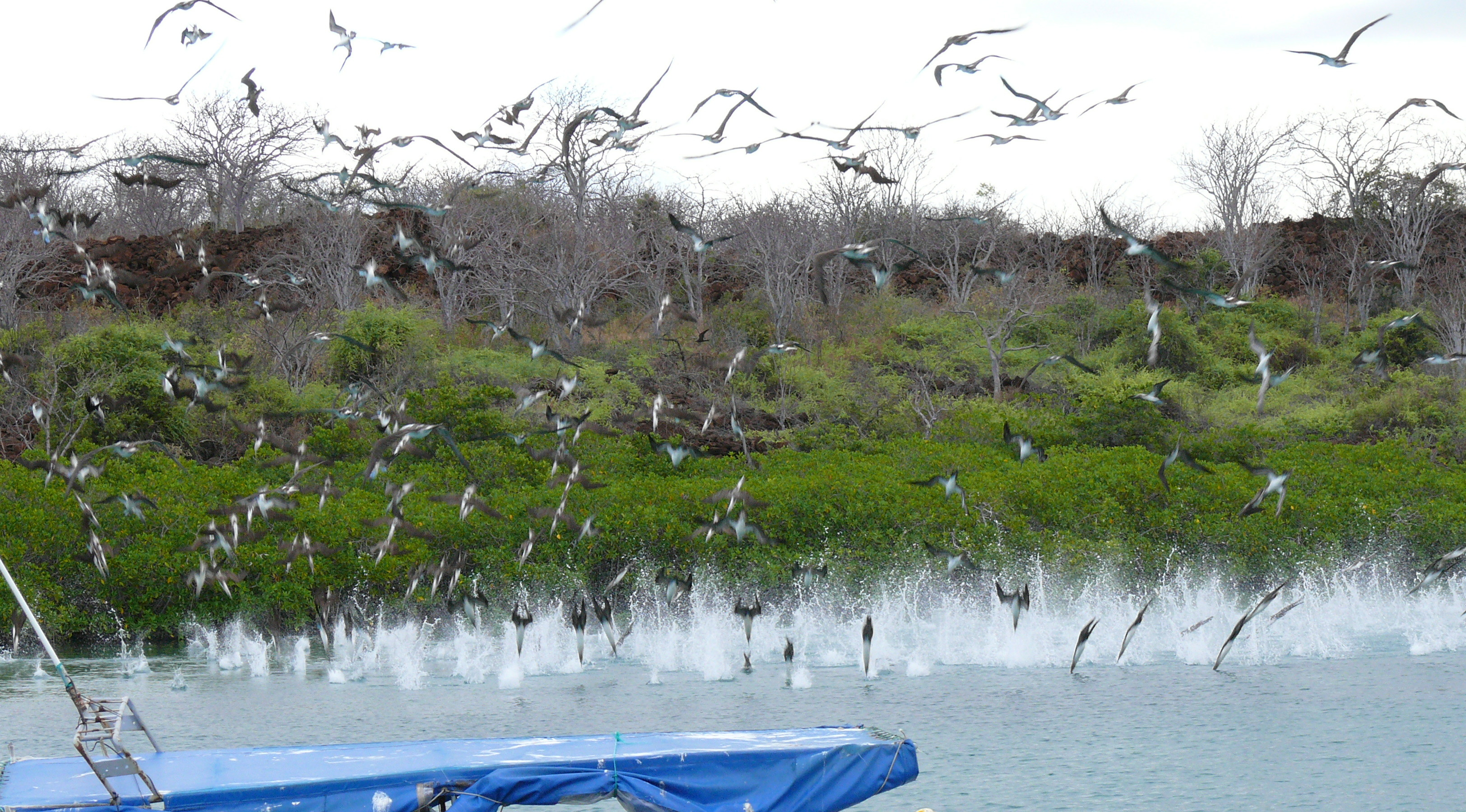 Blue-footed Booby (Sula nebouxii), diving